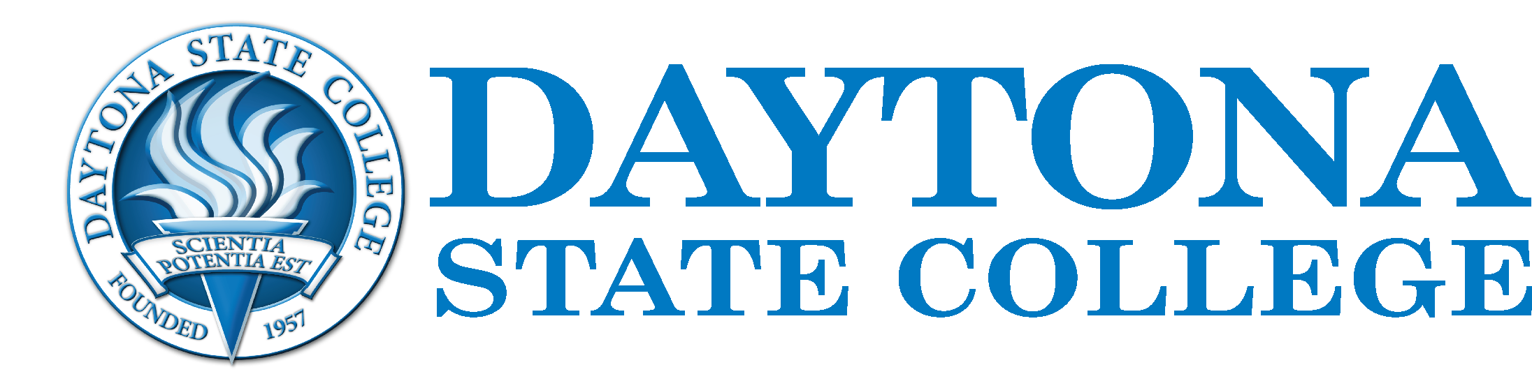 Logo for Daytona State College